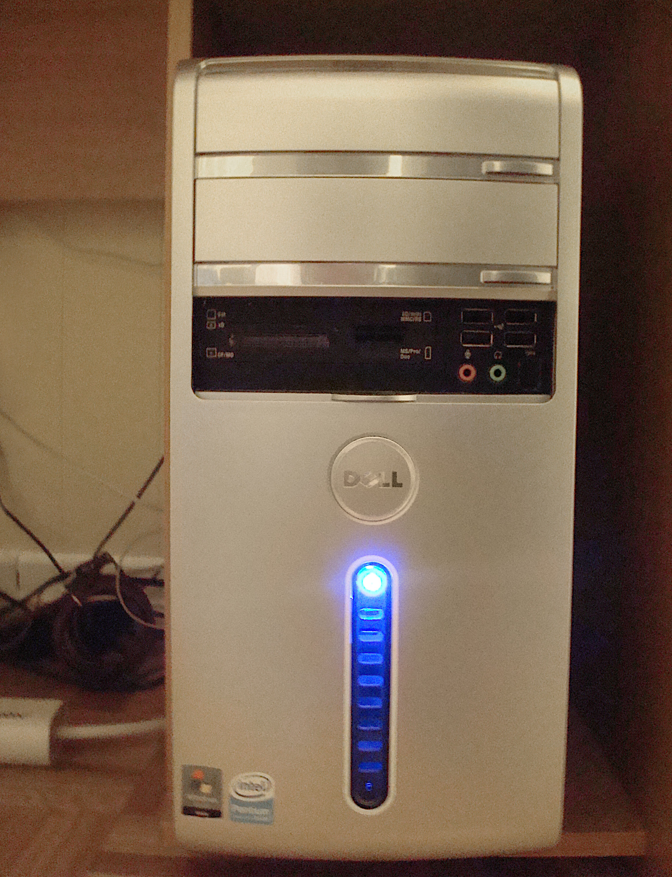 This is an image of my Dell Inspiron 530 desktop computer.